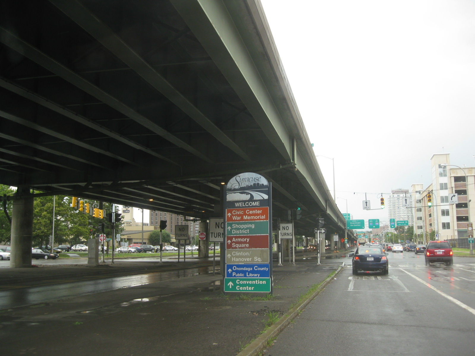 Elevated portion of Interstate 81 in downtown Syracuse, NY.